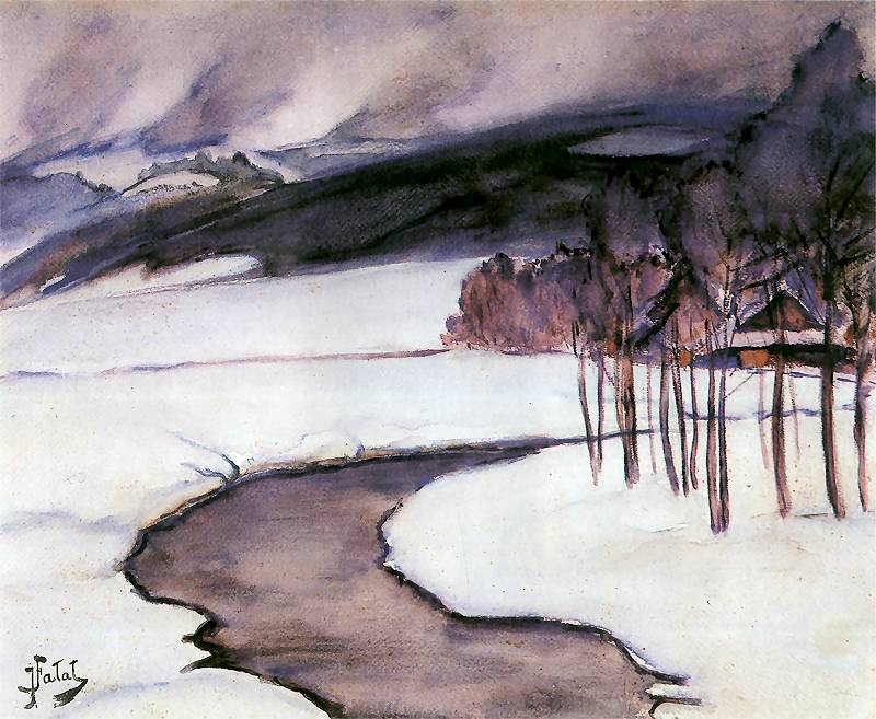 Winter Landscape from Bystra